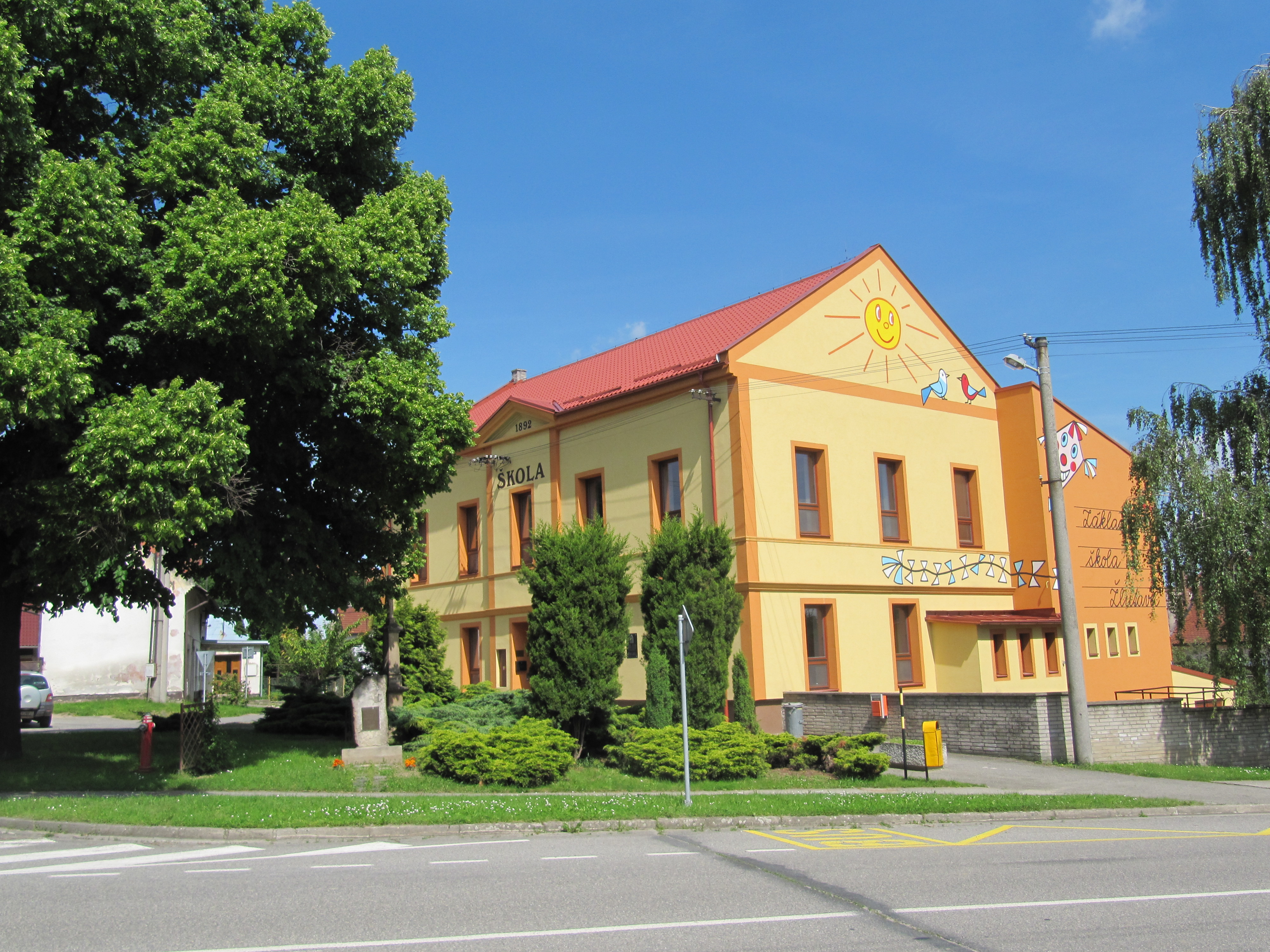 Žlutavain Zlín District, Czech Republic. School.